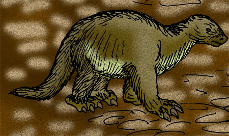 Reconstruction of the dog-sized Haitian ground sloth, Synocnus comes, of the Late Pleistocene. (C) Stanton F. Fink